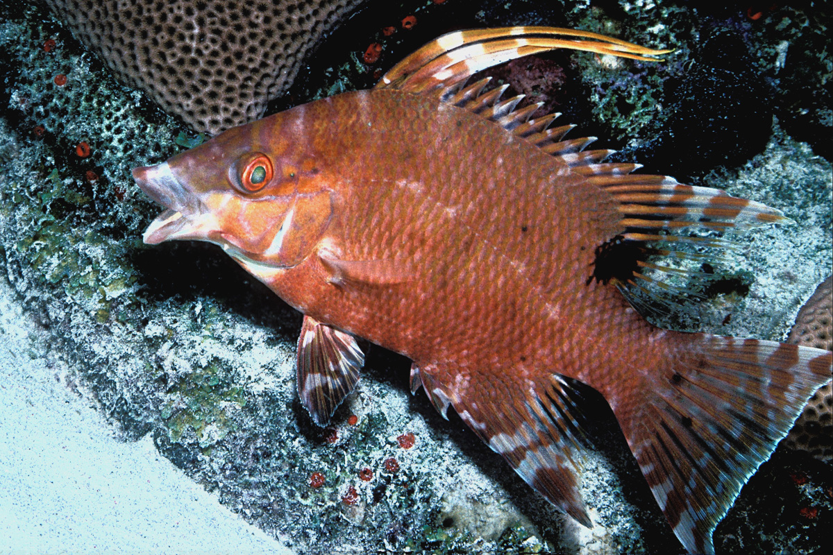 The pose being struck by this juvenile hogfish (Lachnolaimus maximus) is meant to scare you away. Is it working?